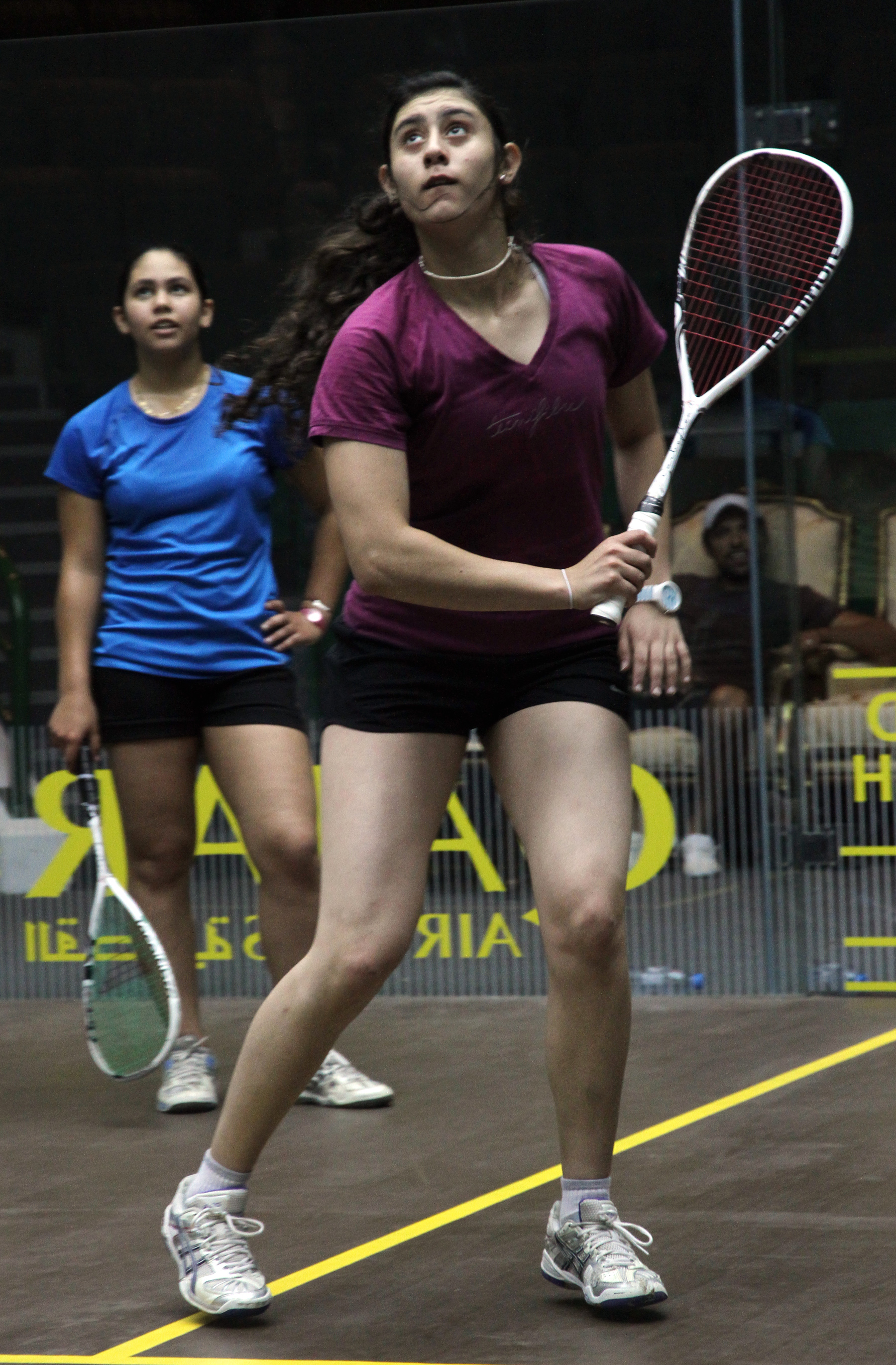 Egyptian teenager Nour El Sherbini in action at the World Junior Squash Championship in Doha. Picture by Vinod Divakaran